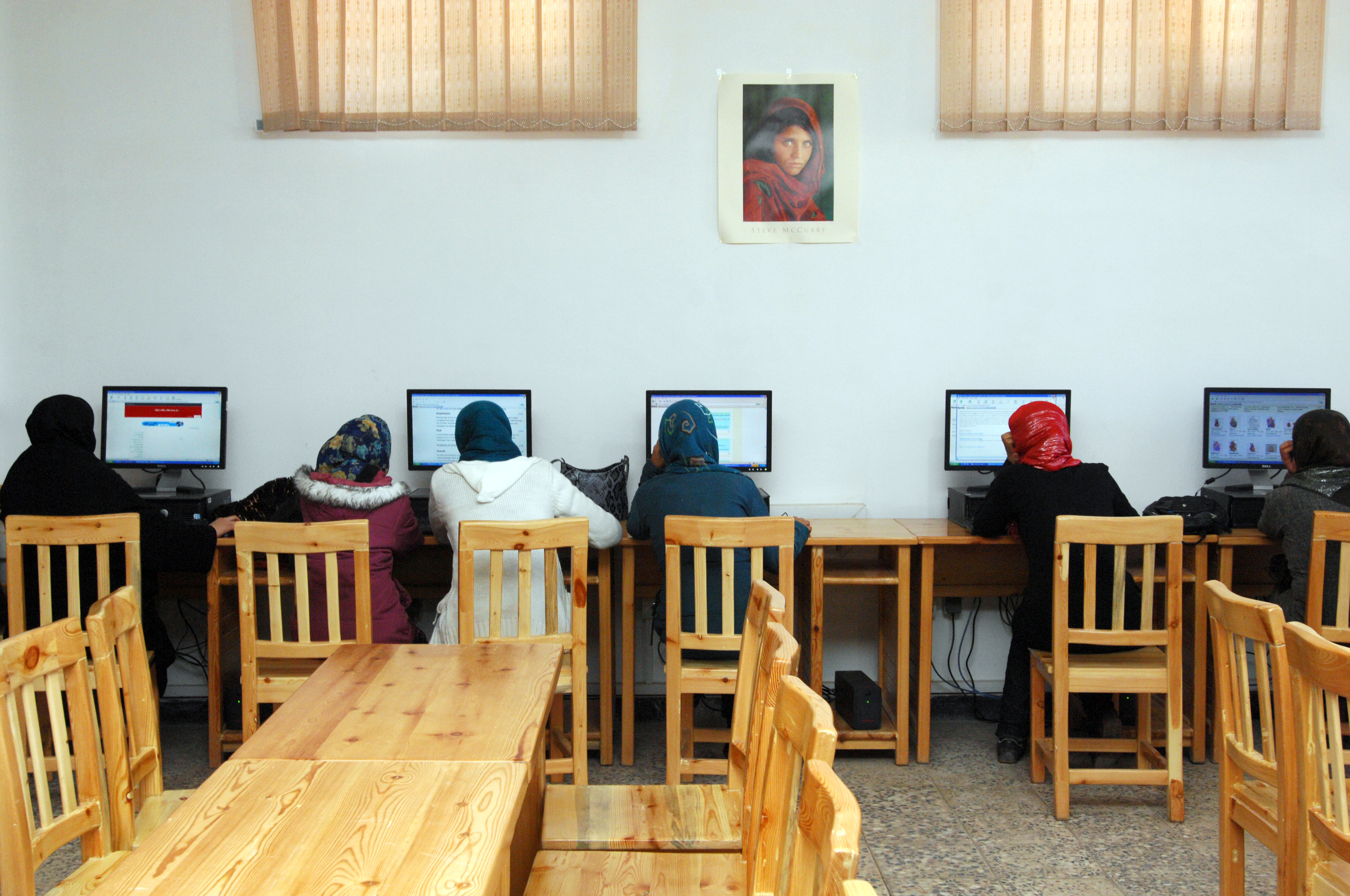 Women using the internet in Herat, Afghanistan.